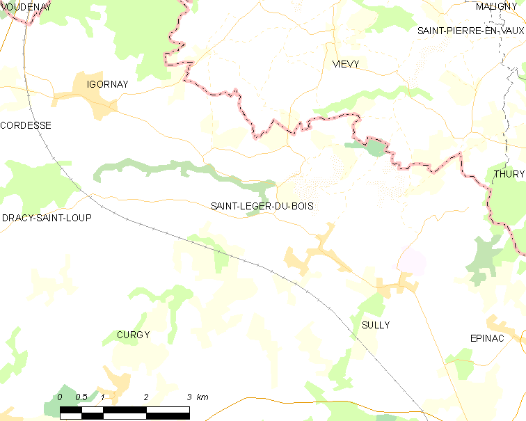 Map of French municipality